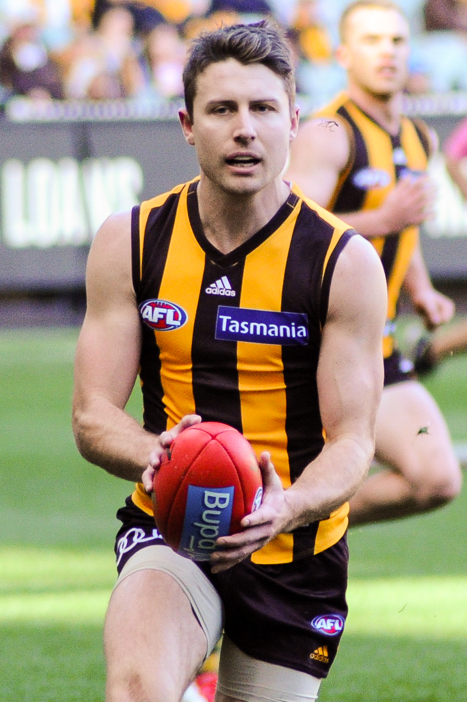 Liam Shiels during the AFL round twelve match between Melbourne and Collingwood on 10 June 2017 at the Melbourne Cricket Ground in Melbourne, Victoria.